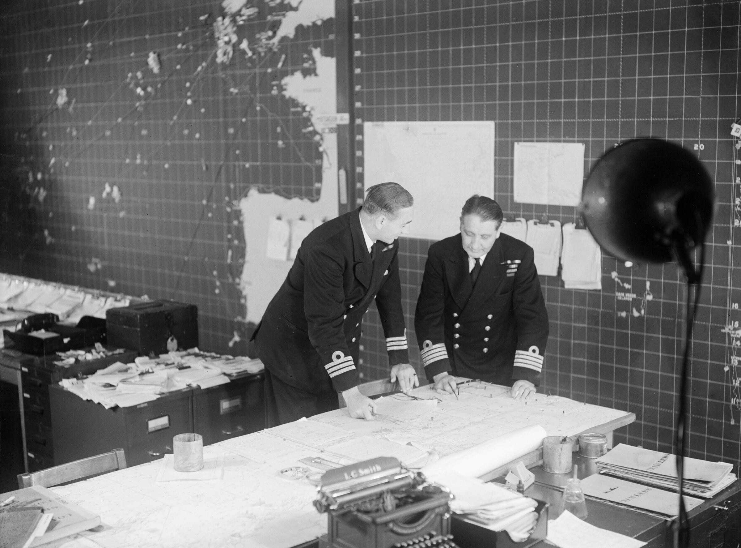 Staff officers discuss convoy movements in the Operations Room at HQ Western Approaches Command, Derby House, Liverpool, September 1944. Commander Cross, Staff Officer Convoys, (left) discussing a special convoy movement map with Captain Lake, RN, Duty Officer in the Operations Room at Derby House, Liverpool. This is one of the scenes for an Anglo-American official film covering the battle of the Atlantic right up to D-Day, being shot by Army Film Unit cameramen at the headquarters of the Commander in Chief Western Approaches.